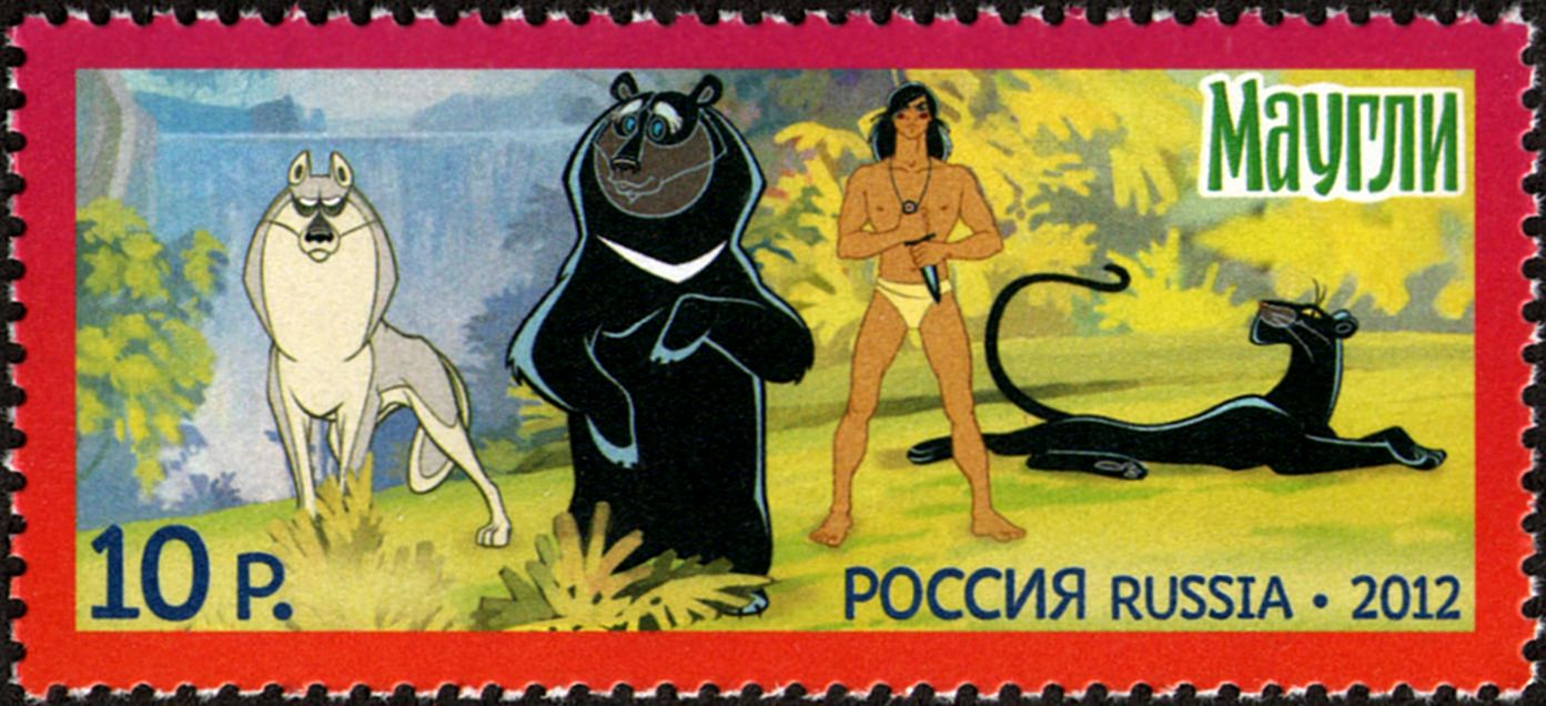 Soviet animated cartoons.Adventures of Mowgli. 1967—1971. Soyuzmultfilm. Directed by Roman Davydov (1913—1988).The stamp of Russia, 10.00 rubles, 3 December 2012, PTC Marka Catalogue No 1653. Coated paper. Offset printing, multicoloured. Perforation: comb 12:12½. Size of the stamp: 58×26 mm. Print run: 200,000.